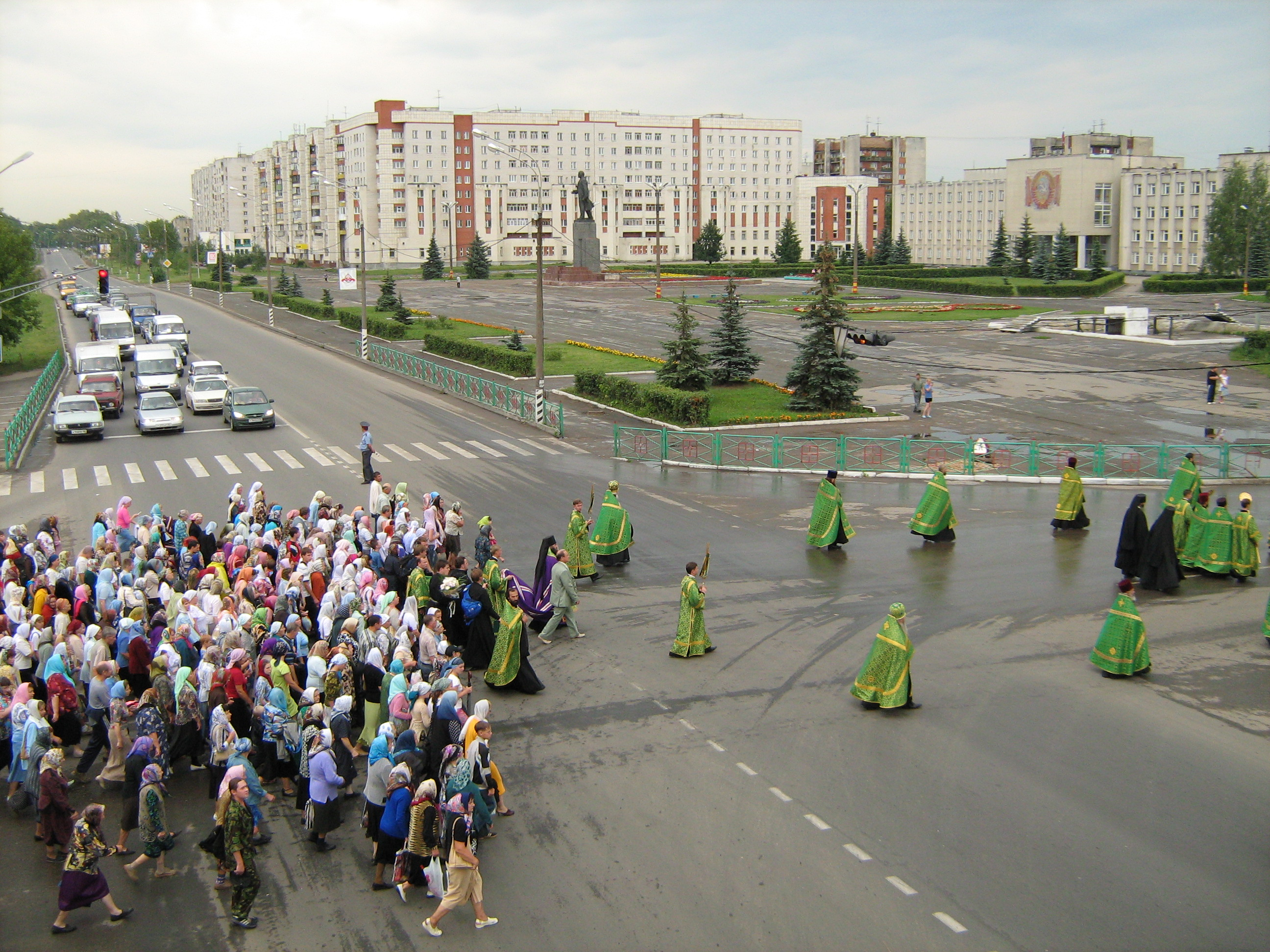 The bronze Lenin is looking on as the Orthodox clergy, along with Kstovo elected officials and city people are taking the Honorable Head of Venerable Macarius to a Kstovo church, during the holy relic's stopover in Kstovo on its way from Nizhny Novgorod's Pechersky Monastery to Makraiev Monastery, where it will be attending the annual Feast of St Macarius